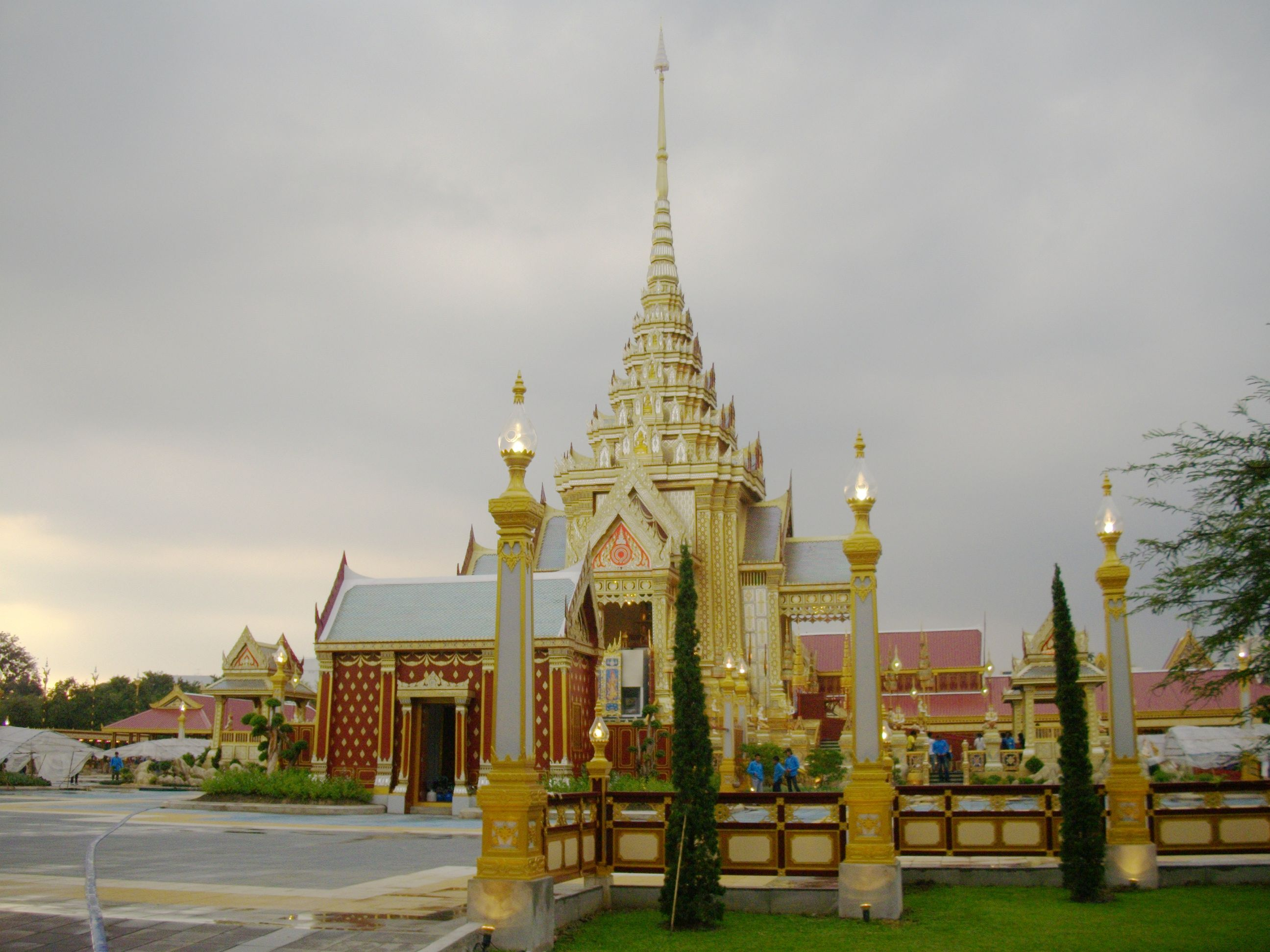 The Royal Crematorium ("Phra Meru") at Sanam Luang, view from east side. This building was used in the Royal Cremation of Her Royal Highness Princess Galyani Vadhana, King Rama IX's Sister, in 15 November 2008.